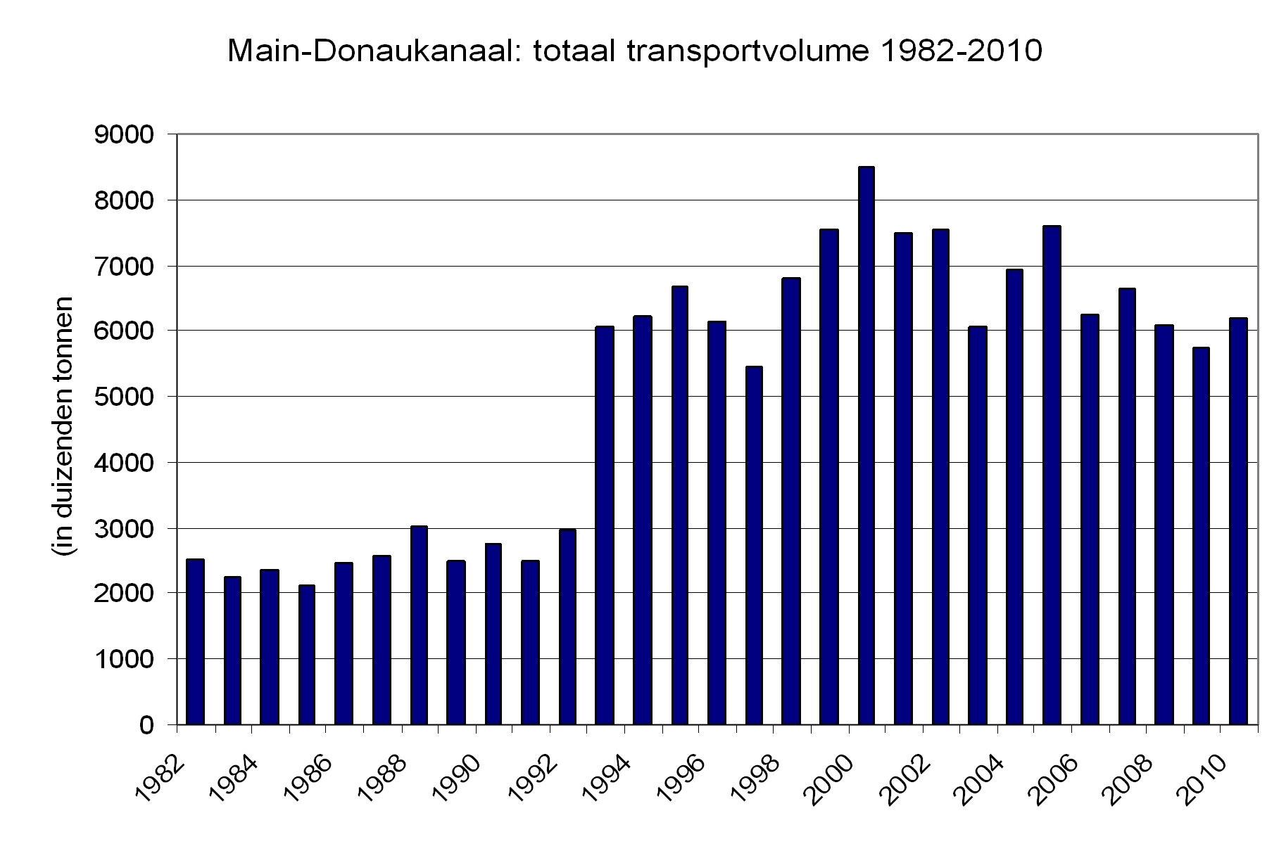 Main-Donaucanal traffic volume 1982-2010. Source: WSD Sud, Verkehrsbericht 2010, date August 2011